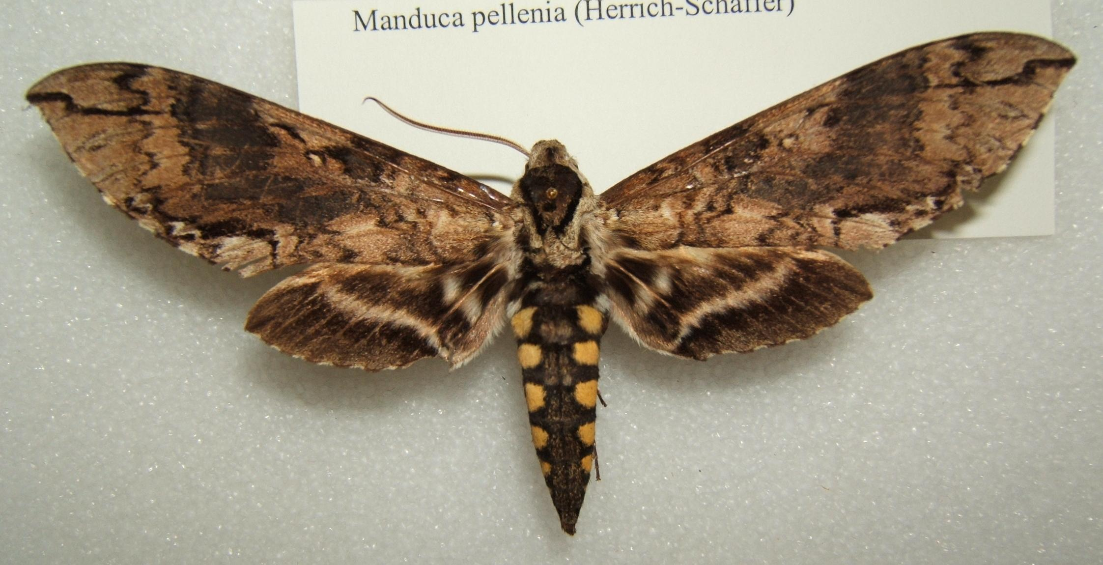 Manduca pellenia adult taken by Shawn Hanrahan at the Texas A&M University Insect Collection in College Station, Texas.